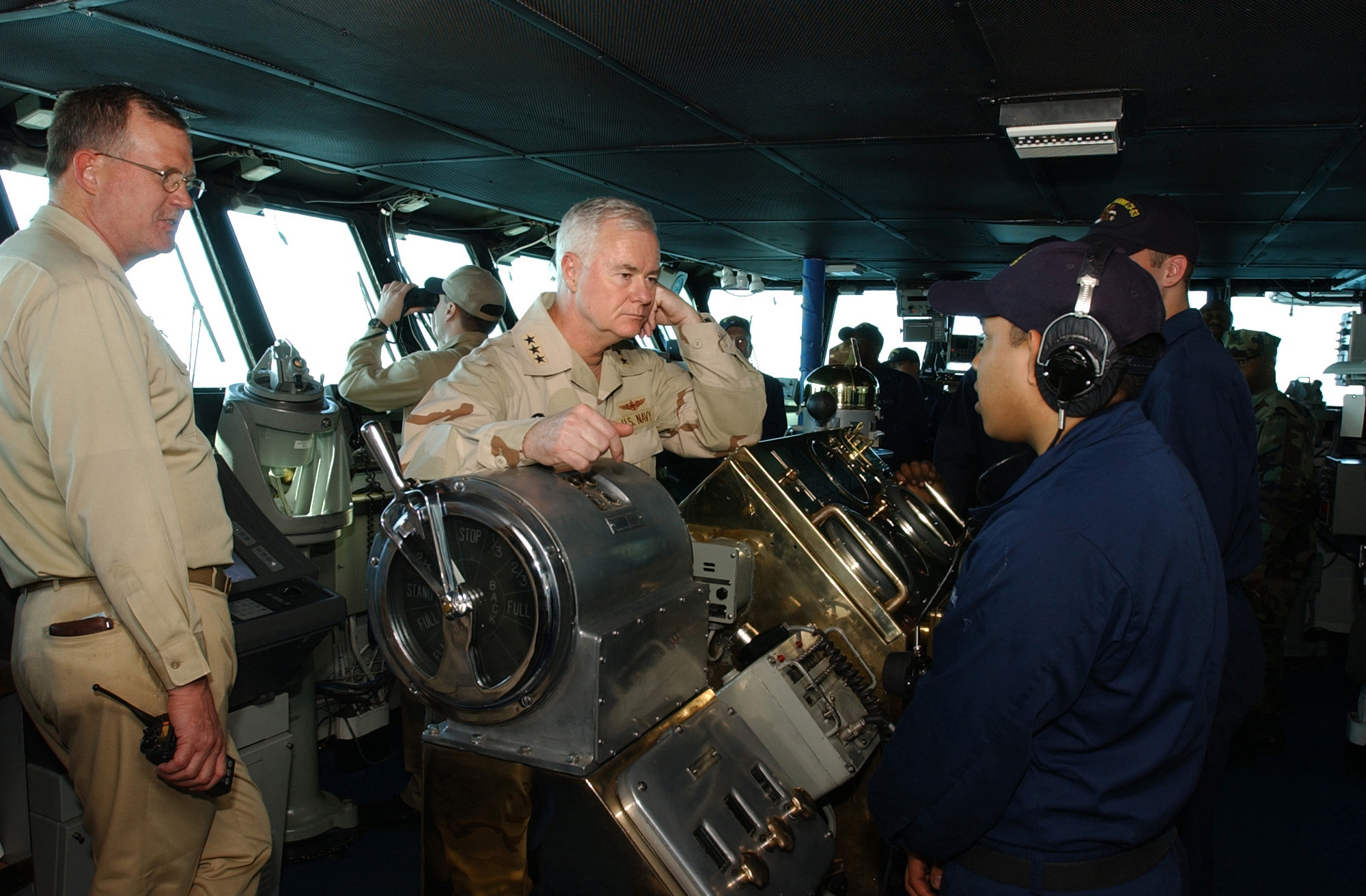 Arabian Gulf (Mar. 1, 2003) -- Vice Adm. Timothy Keating, Commander, U.S. Naval Force Central Command, tours the bridge of the aircraft carrier USS Kitty Hawk (CV 63) while meeting with Sailors aboard ship. Kitty Hawk and her embarked Carrier Air Wing Five (CVW-5) are conducting missions in support Operation Southern Watch and Enduring Freedom. Kitty Hawk and its embarked Carrier Air Wing Five (CVW-5) is the world’s only permanently forward-deployed aircraft carrier and operates out of Yokosuka, Japan. U.S. Navy photo by Photographer’s Mate 3rd Class William H. Ramsey. (RELEASED)